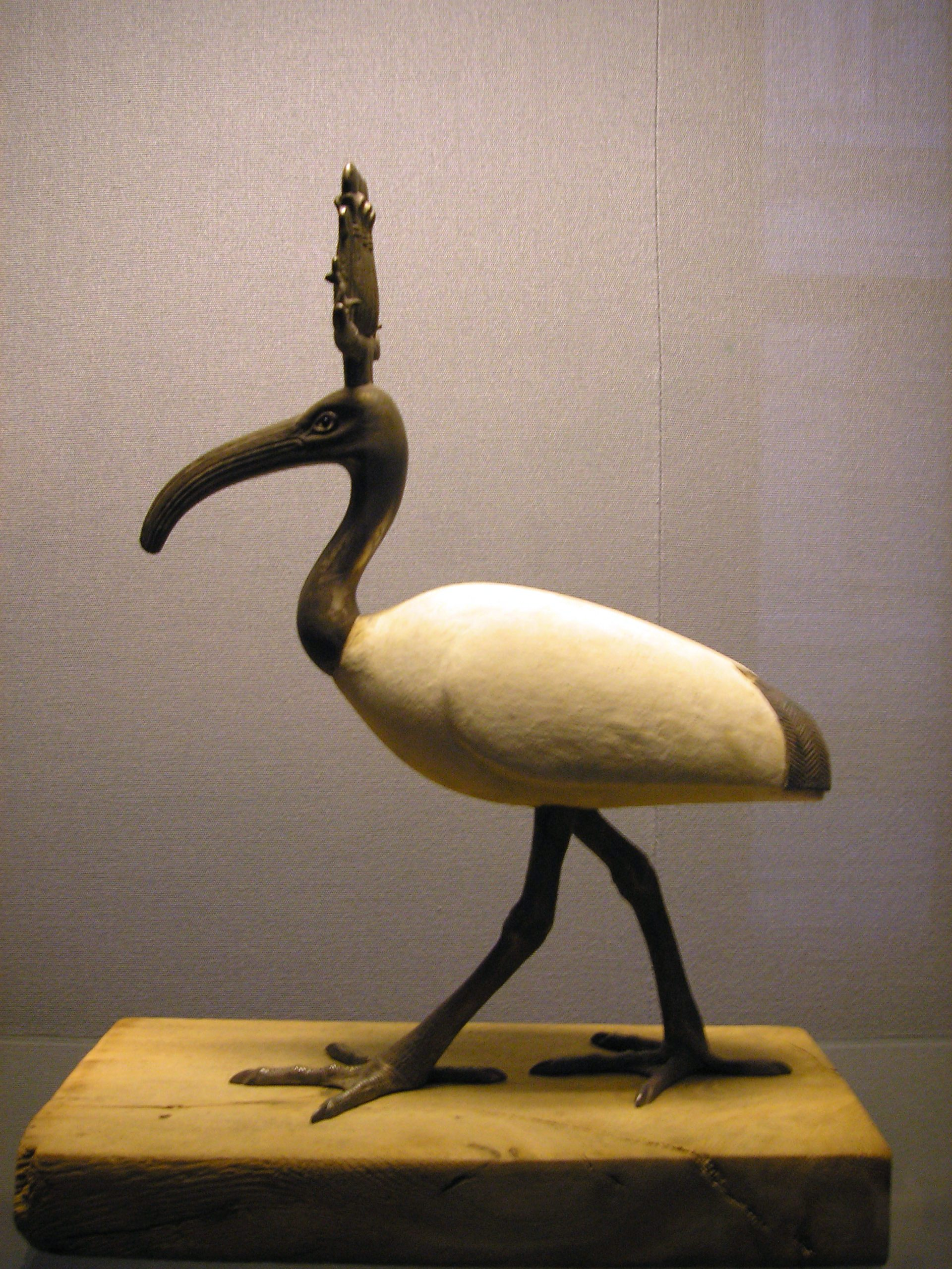 Statue of the bird-god Ibis in the Kunsthistorisches Museum